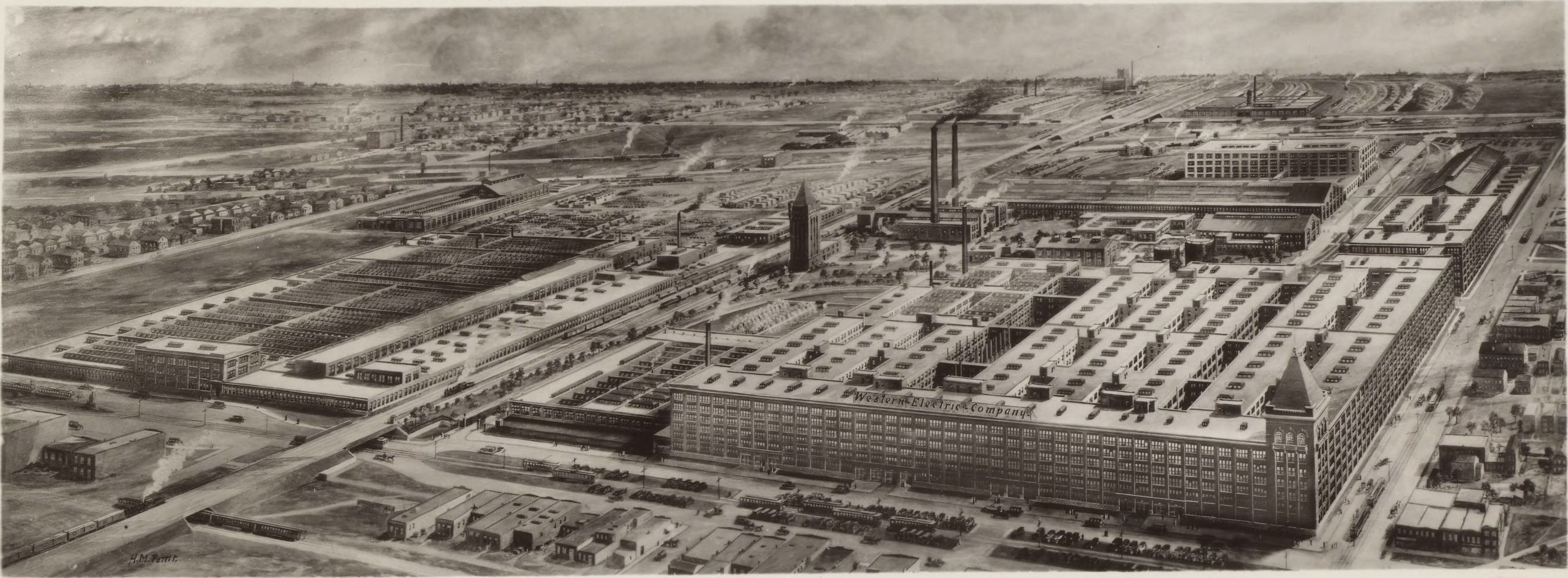 Hawthorne, Illinois Works of the Western Electric Company, 1925